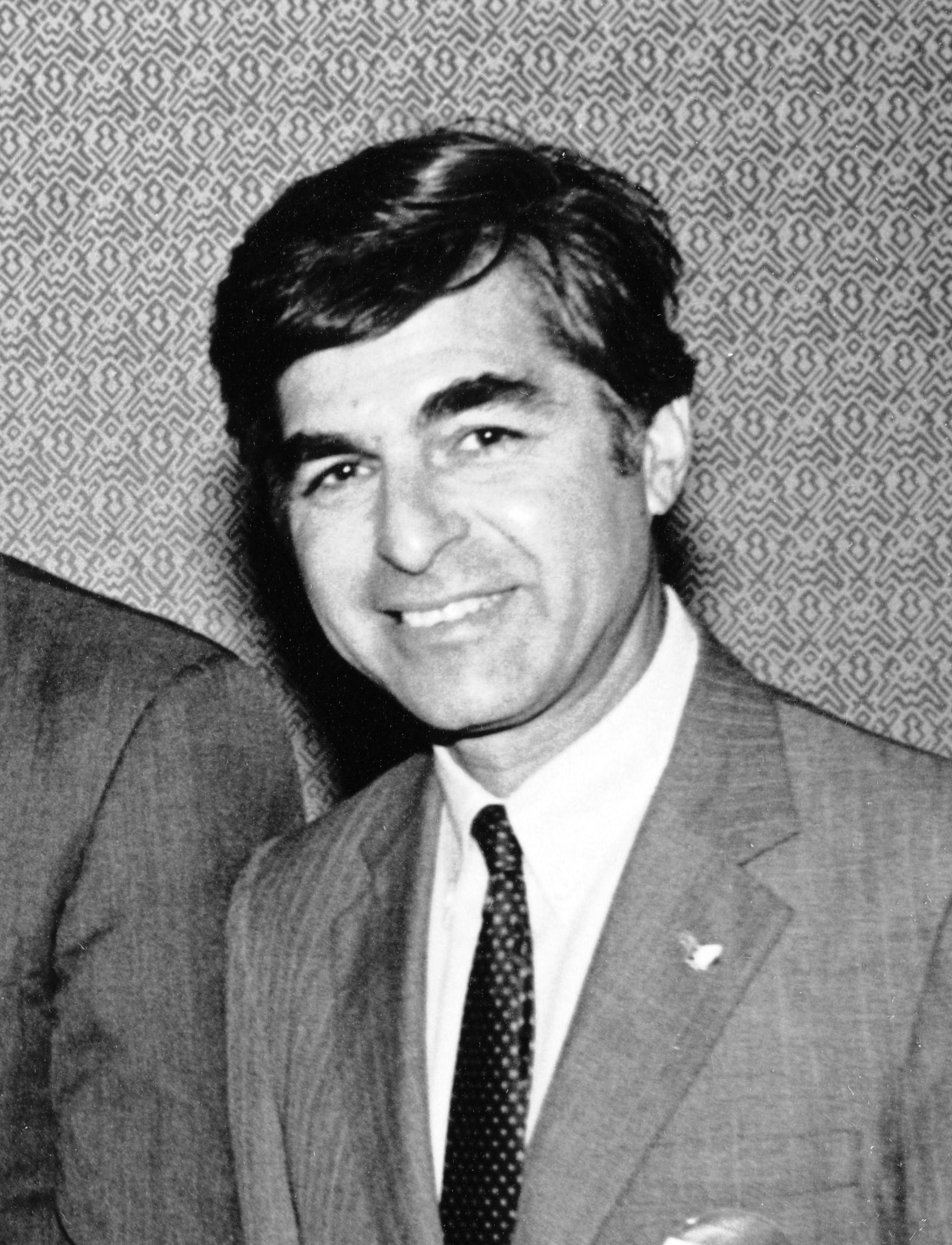 Governor Michael Dukakis; cropped for 1988 United States presidential election